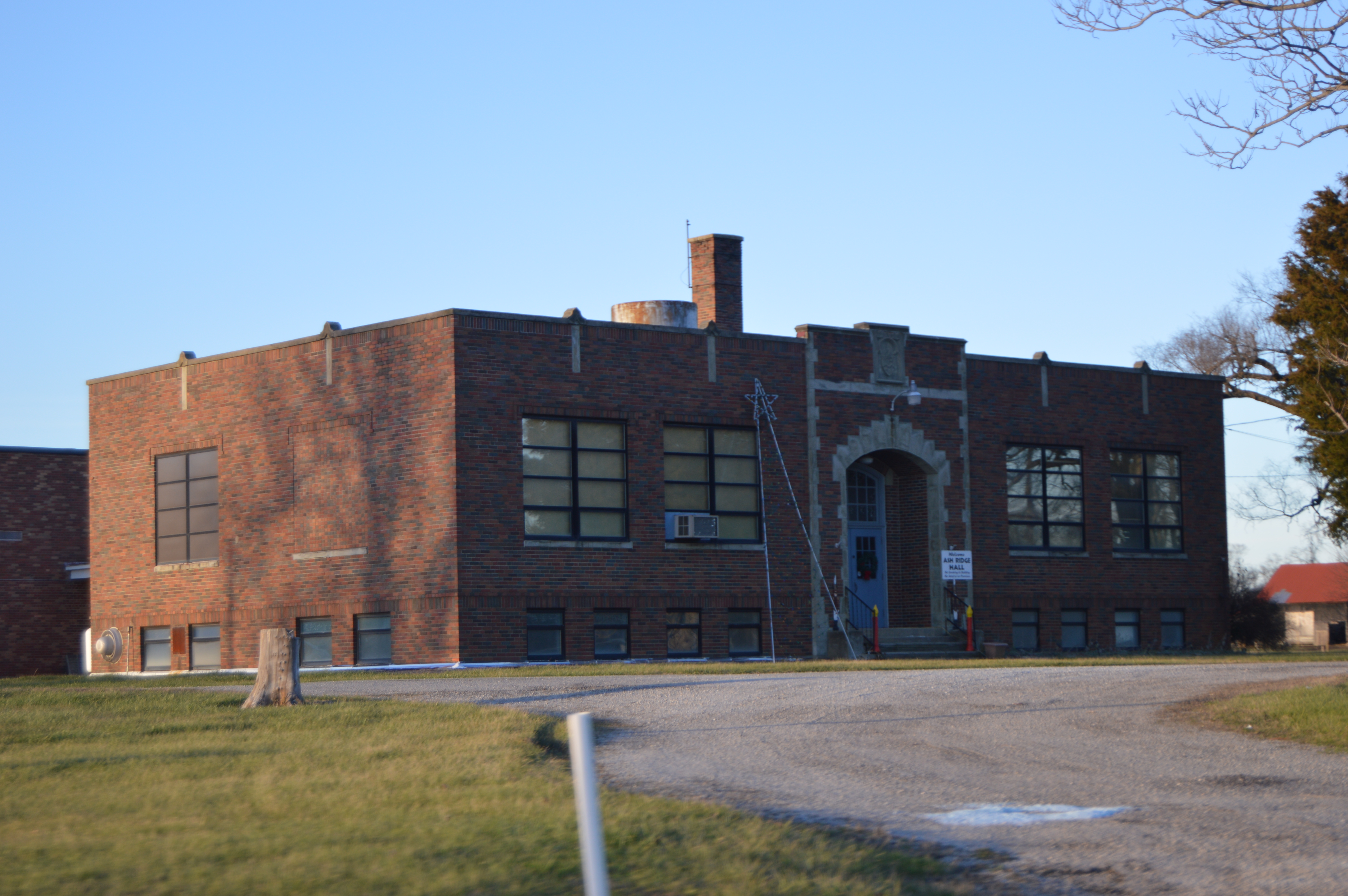 An old school (now a community center) located on the northern side of U.S. Route 62 at the southwestern end of Ash Ridge, Ohio, United States.